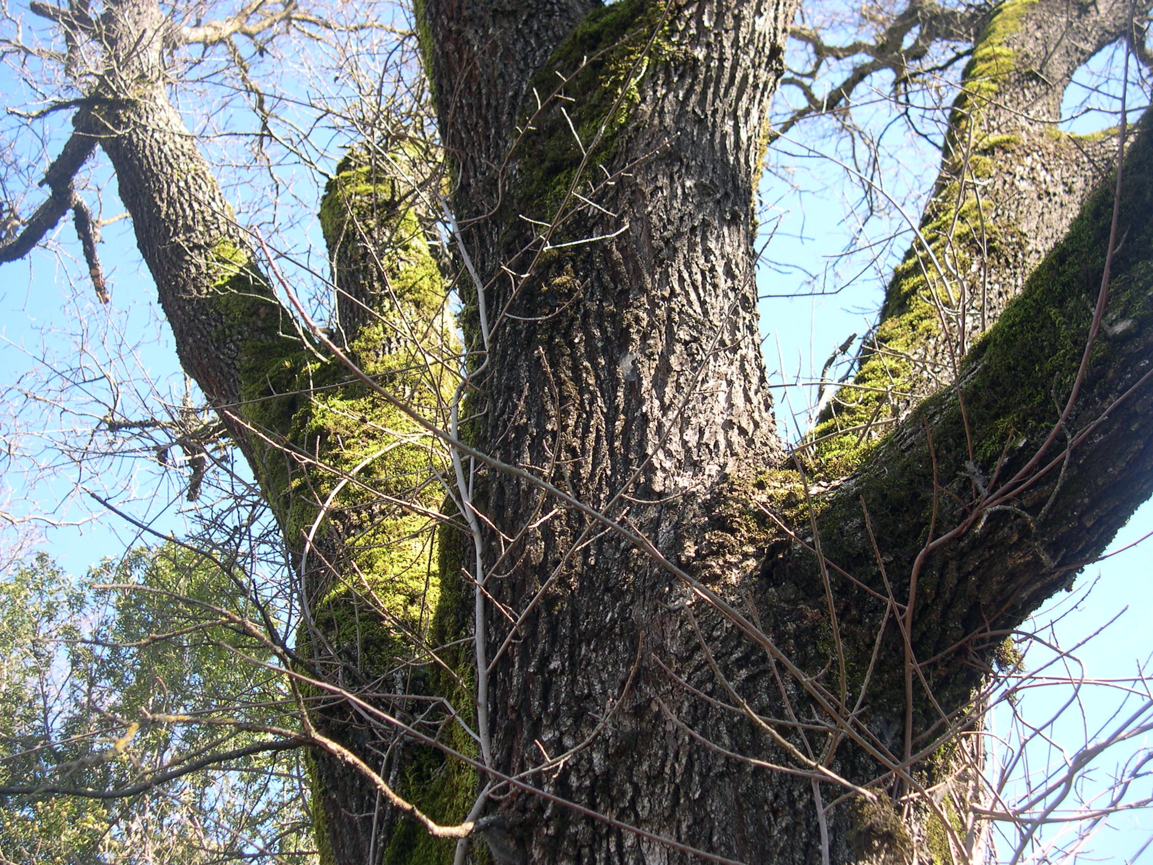 Close up of trunk fork and bark, quercus lobata.